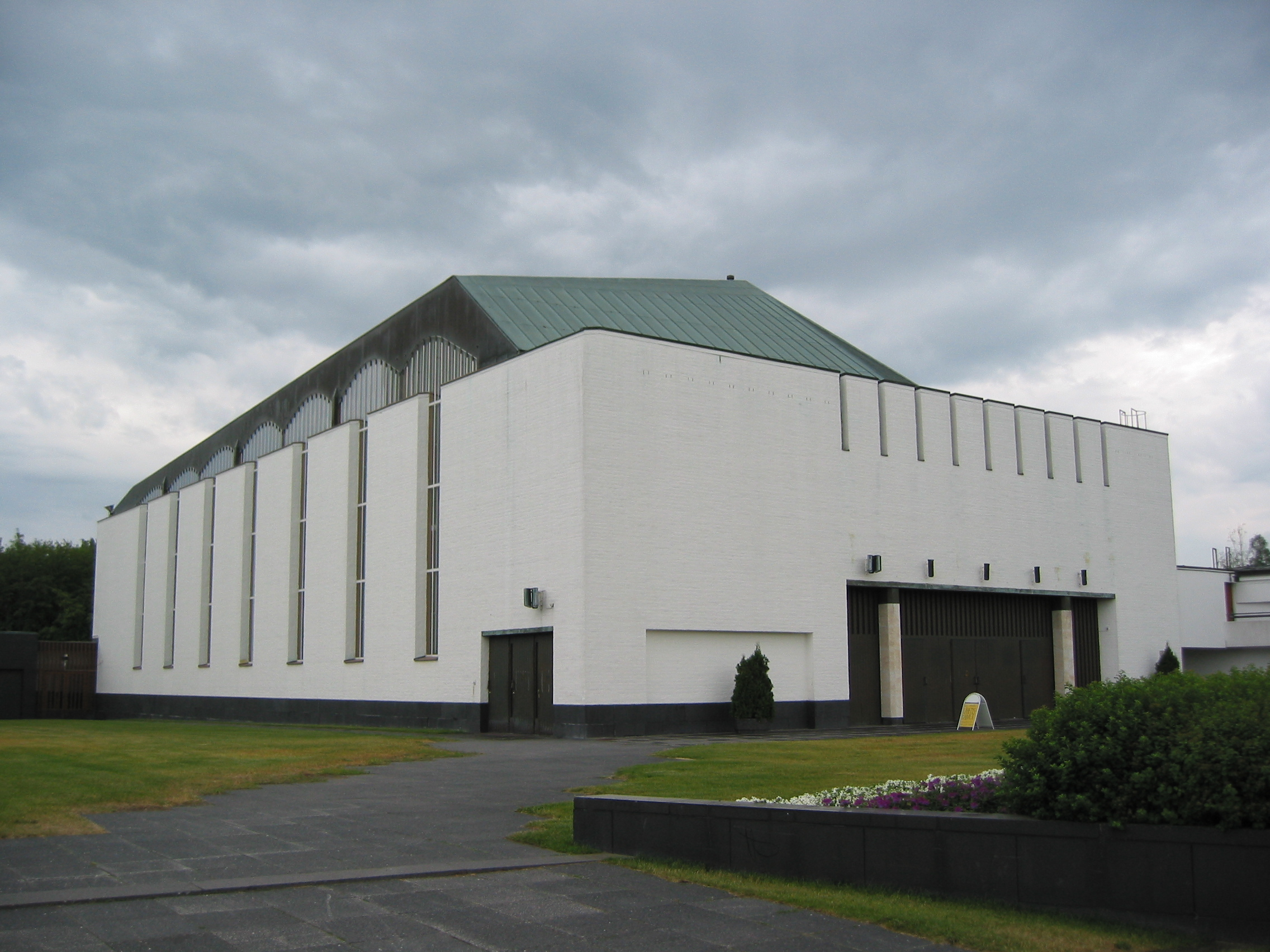 Lakeuden Risti church in Seinäjoki, Finland